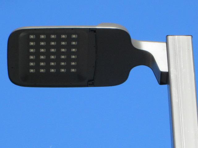 History of street lighting: Leotek Arieta AR18 in black (60-180 watts)